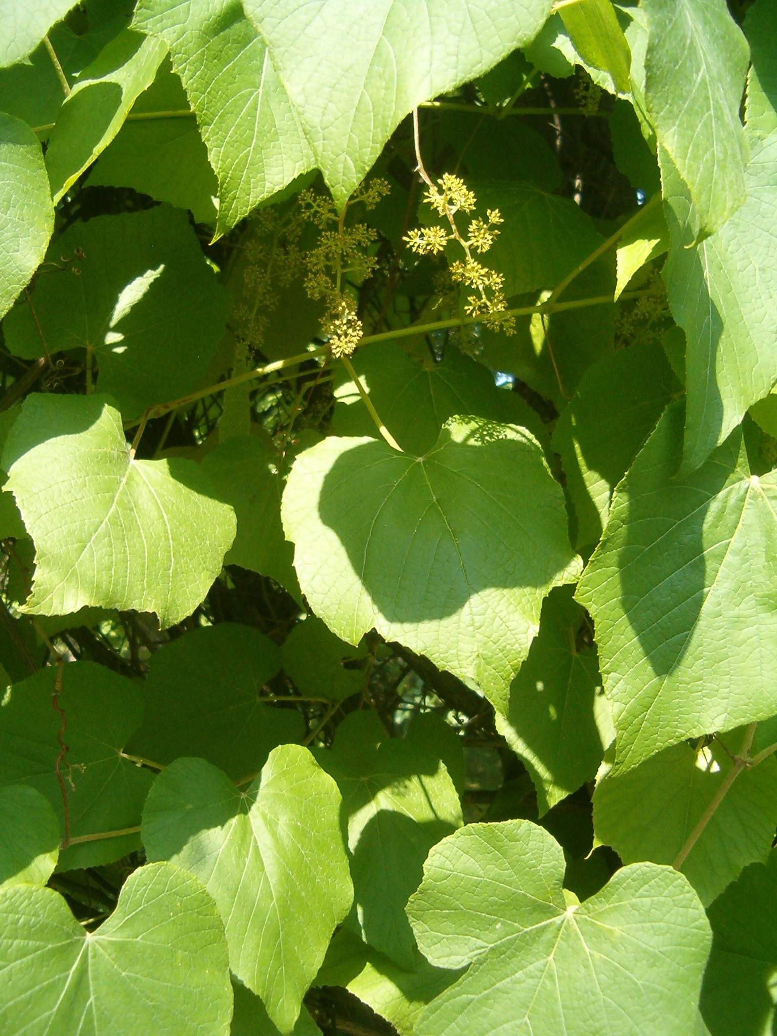 At Botanical Gardens Berlin-Dahlem Species Vitis cinerea